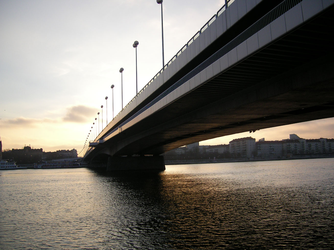 Reichsbrücke over the Danube in Vienna